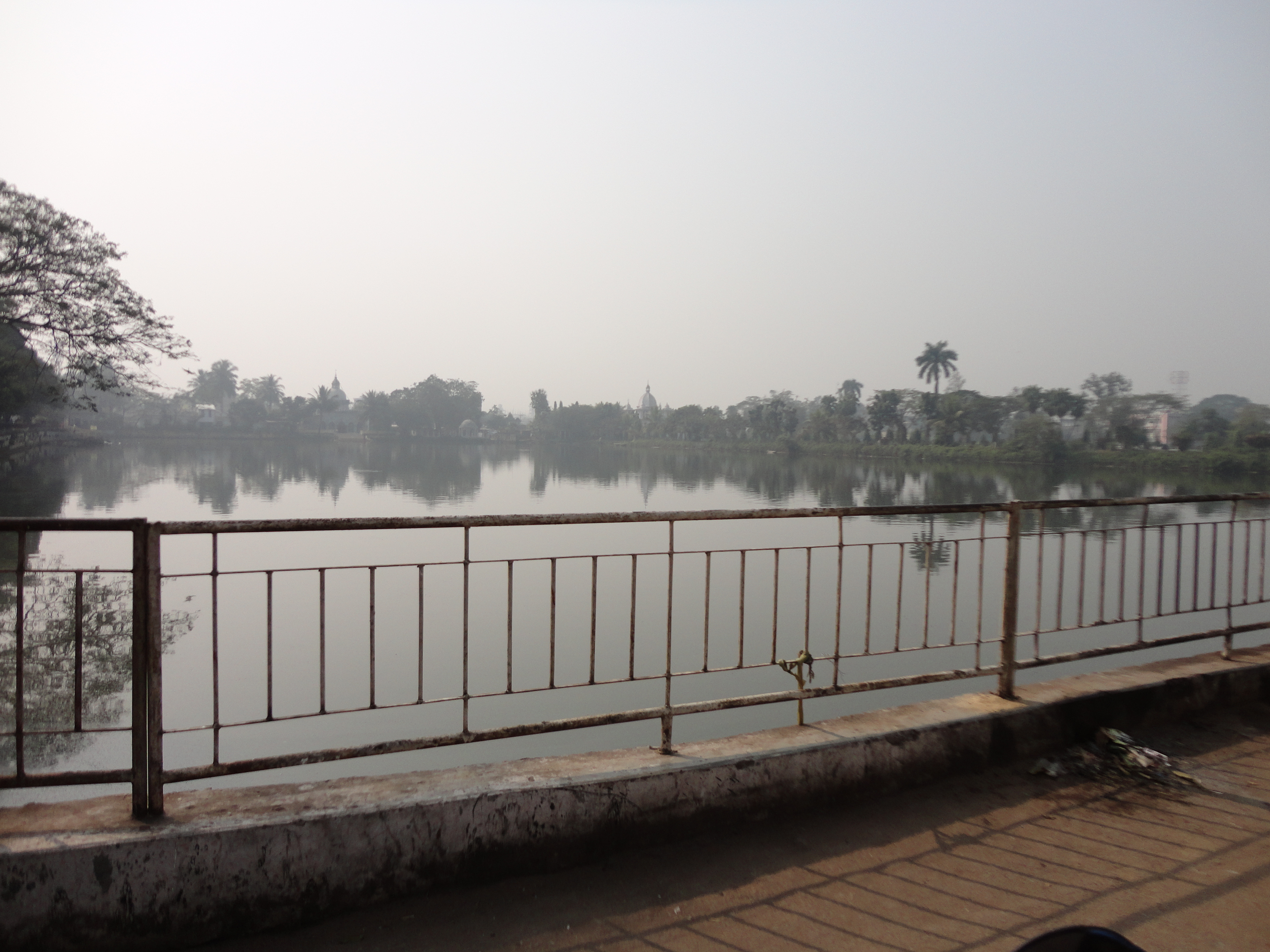 laxminarayan lake